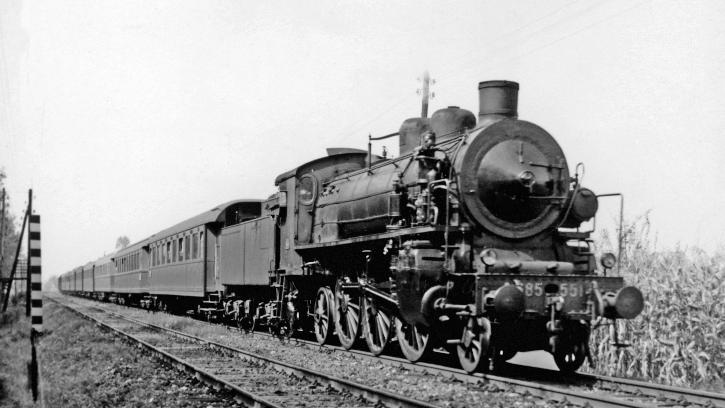 Eastbound express on the Turin to Milan main line near Santhia, with a Class 685.551 2-6-2 (Prairie), Sept. 7th 1959.